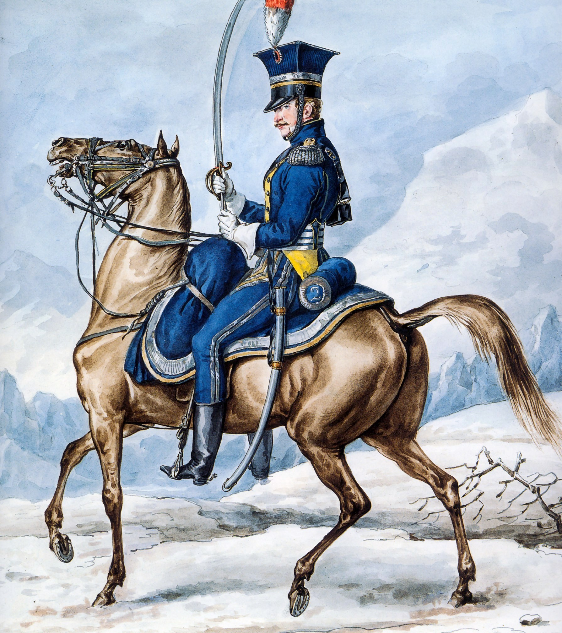 Part of a series chronicling the uniforms of Napoleon's Grande Armée.